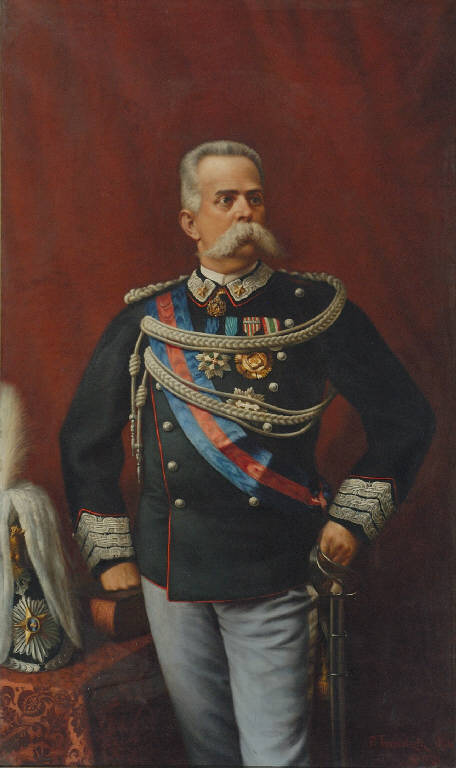 King Umberto I of Italy